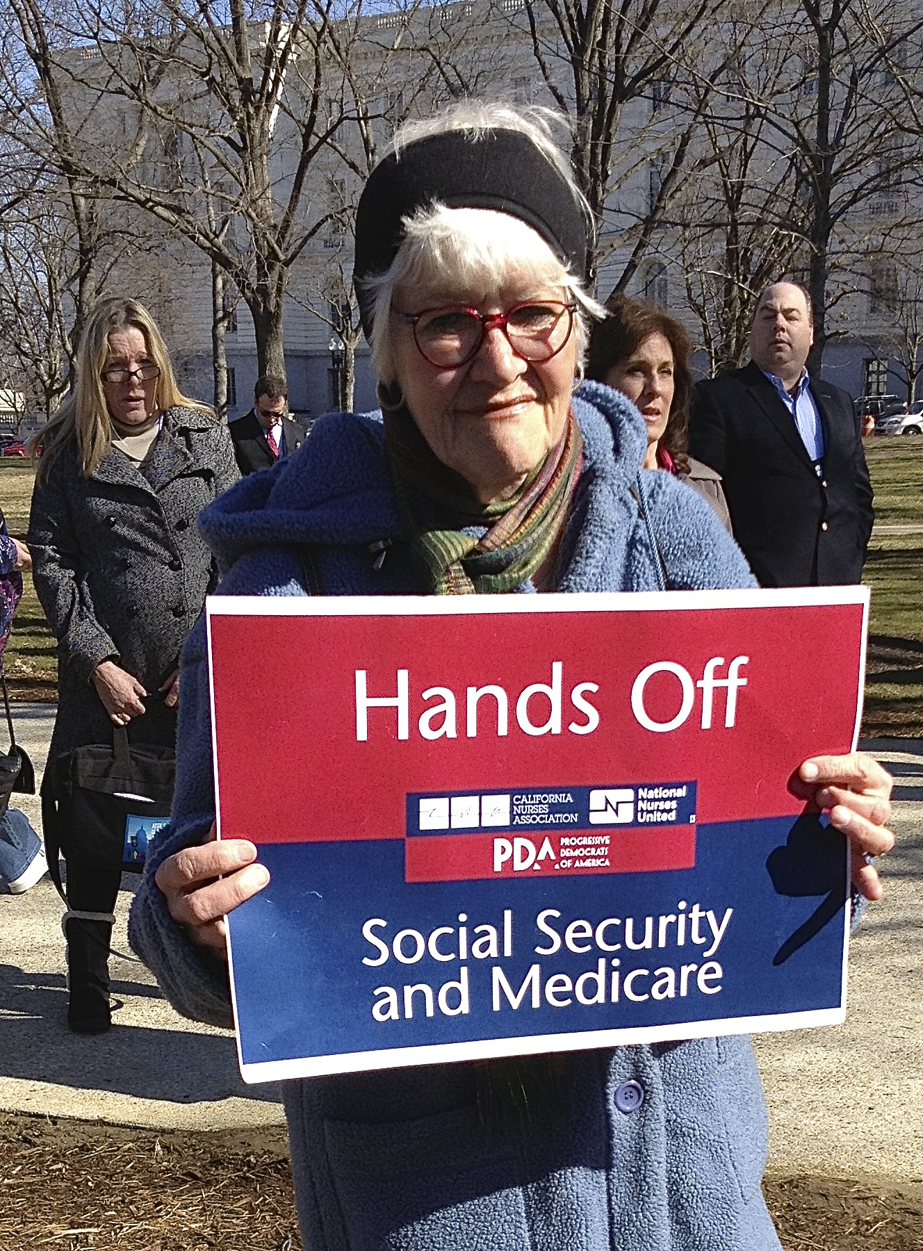 Photo at a rally in Senate Park, Washington DC, Feb. 12, 2013.